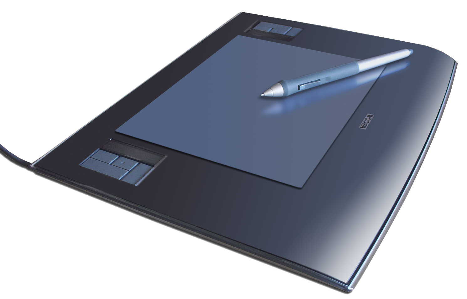 Wacom Pen Tablet with Pen, Intuos 3 A5